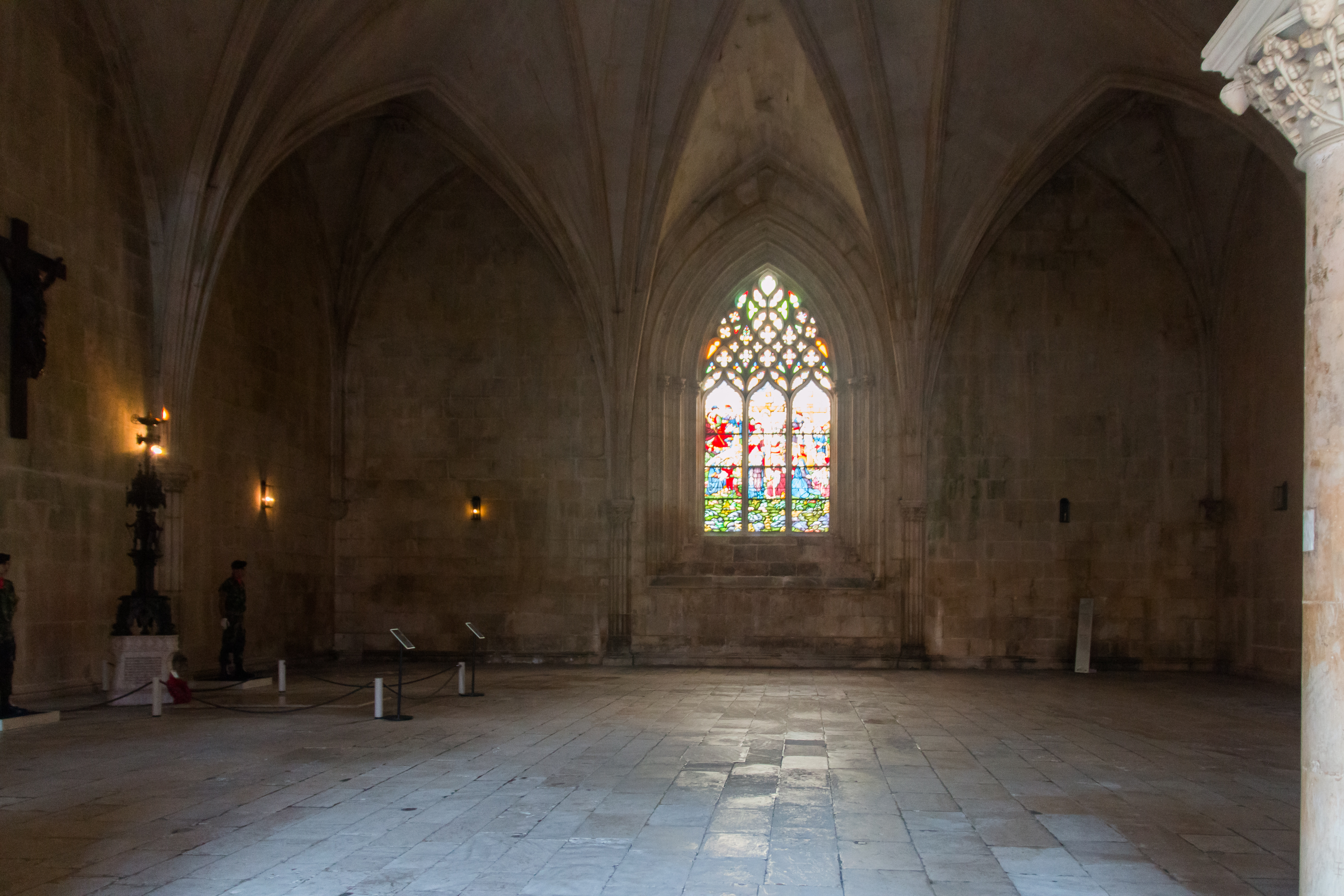 Free of pillars the Chapter Hall is remarkable for the range of its arches of the vault.